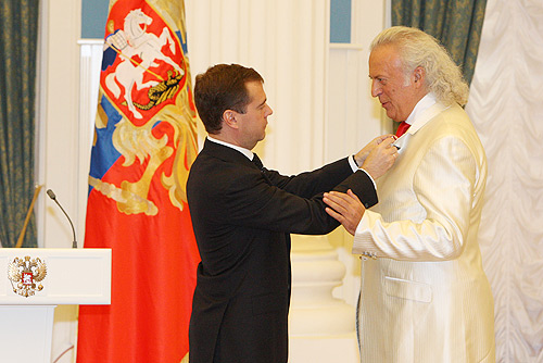 THE KREMLIN, MOSCOW. Ceremony presenting state decorations. The poet Ilya Reznik received the Order for Services to the Fatherland IV class.